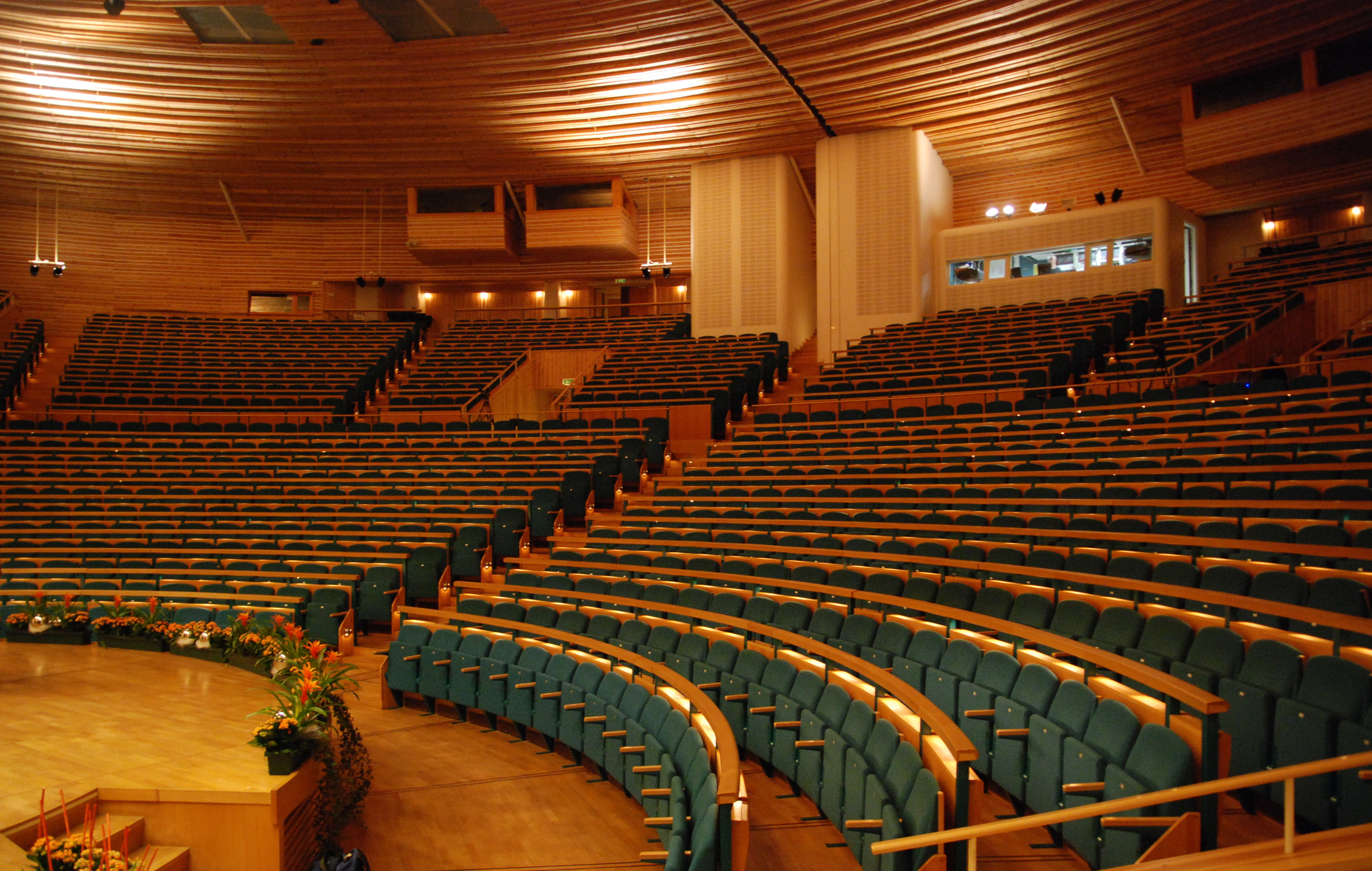 Aula Magna at Stockholm University